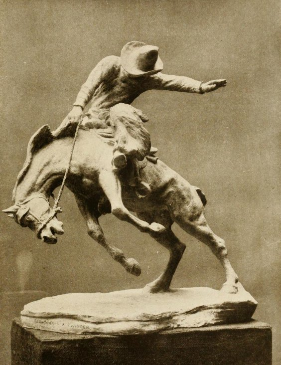 Sculpture by Jo Mora shown in 1915 at the Panama–Pacific International Exposition in San Francisco. Photograph from a book about the art published in 1916.